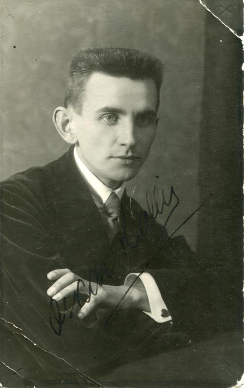 Portrait of Estonian artist Oskar Kallis (1892–1918).